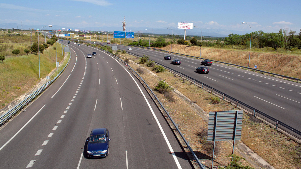 M40 autopista near Madrid